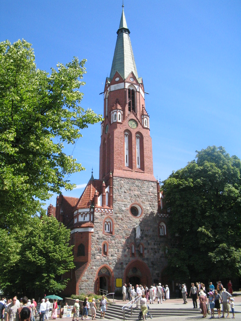 Saint George church in Sopot, Poland